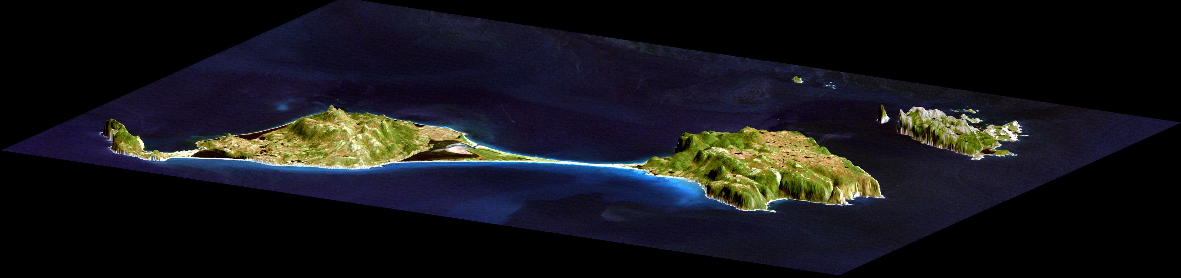 PIA02702: 3-D perspective of Saint-Pierre-et-Miquelon Islands